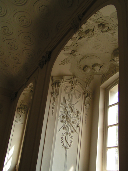 Charles de Lorraine's Palace, Bruxelles, Chapel, inside decoration. Ca. 1760.